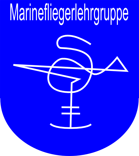 Coat of arms of the former German Naval Air Training Group (1963 - 1997)